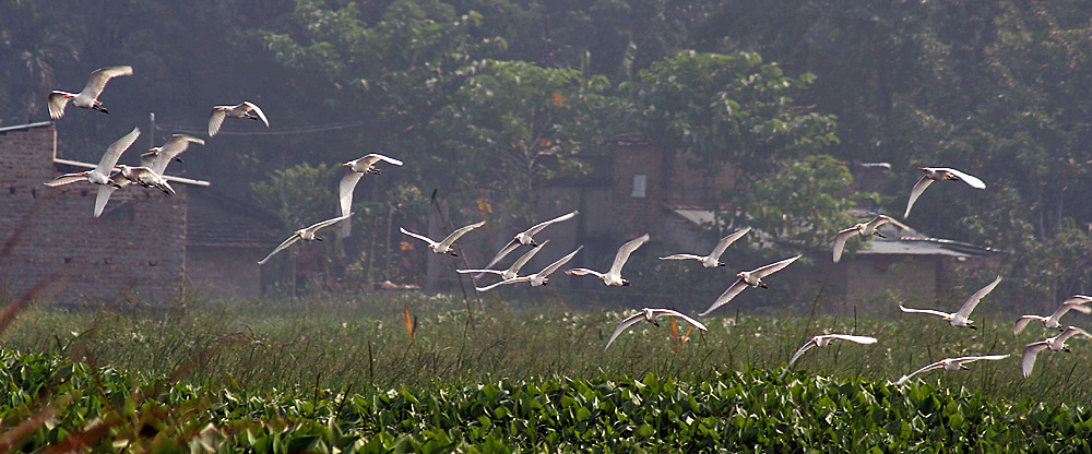 Eastern Cattle Egret Bubulcus coromandus in Kolkata, West Bengal, India.